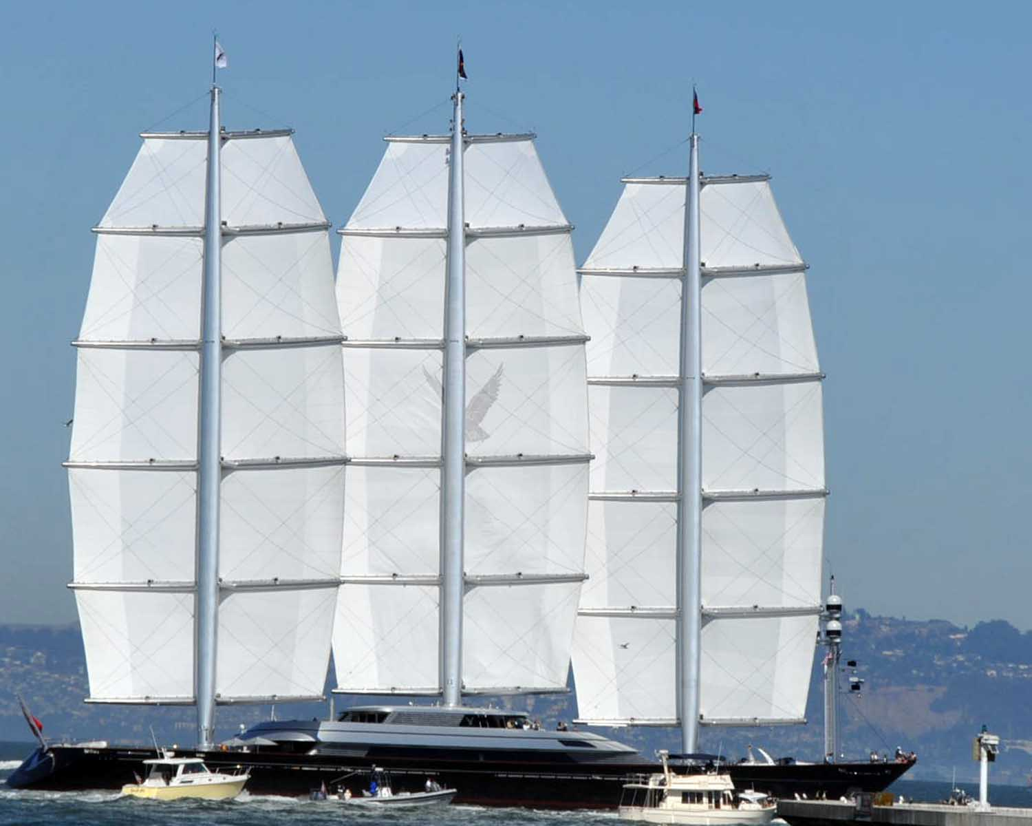 Sept. 2008 one of the world's most luxurious yacht. Taken Sept. 27 at the Bay Area SF.